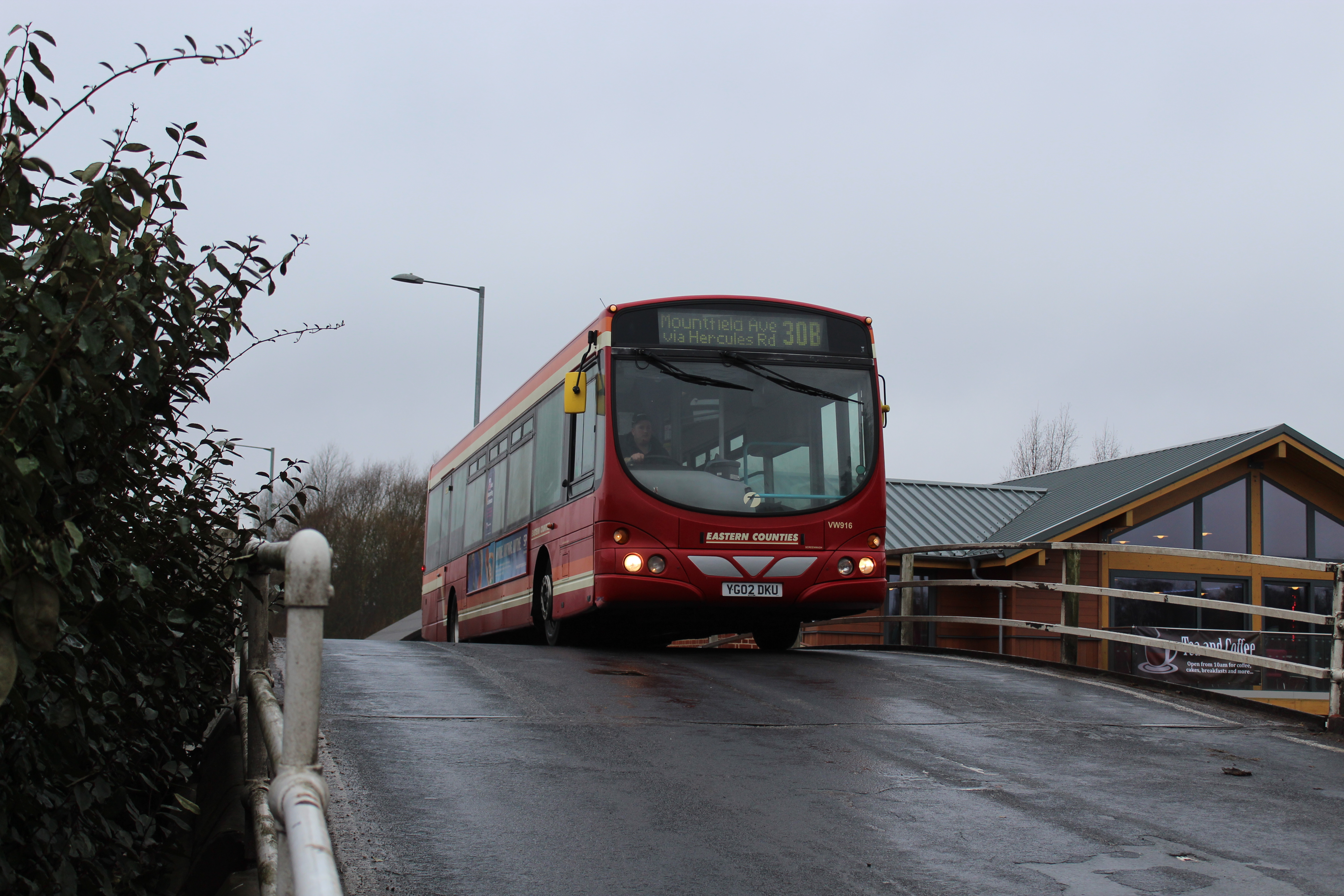 One of Network Norwich's two Eastern Counties retro-liveried Volvo B7L/Wright Eclipse Metros.